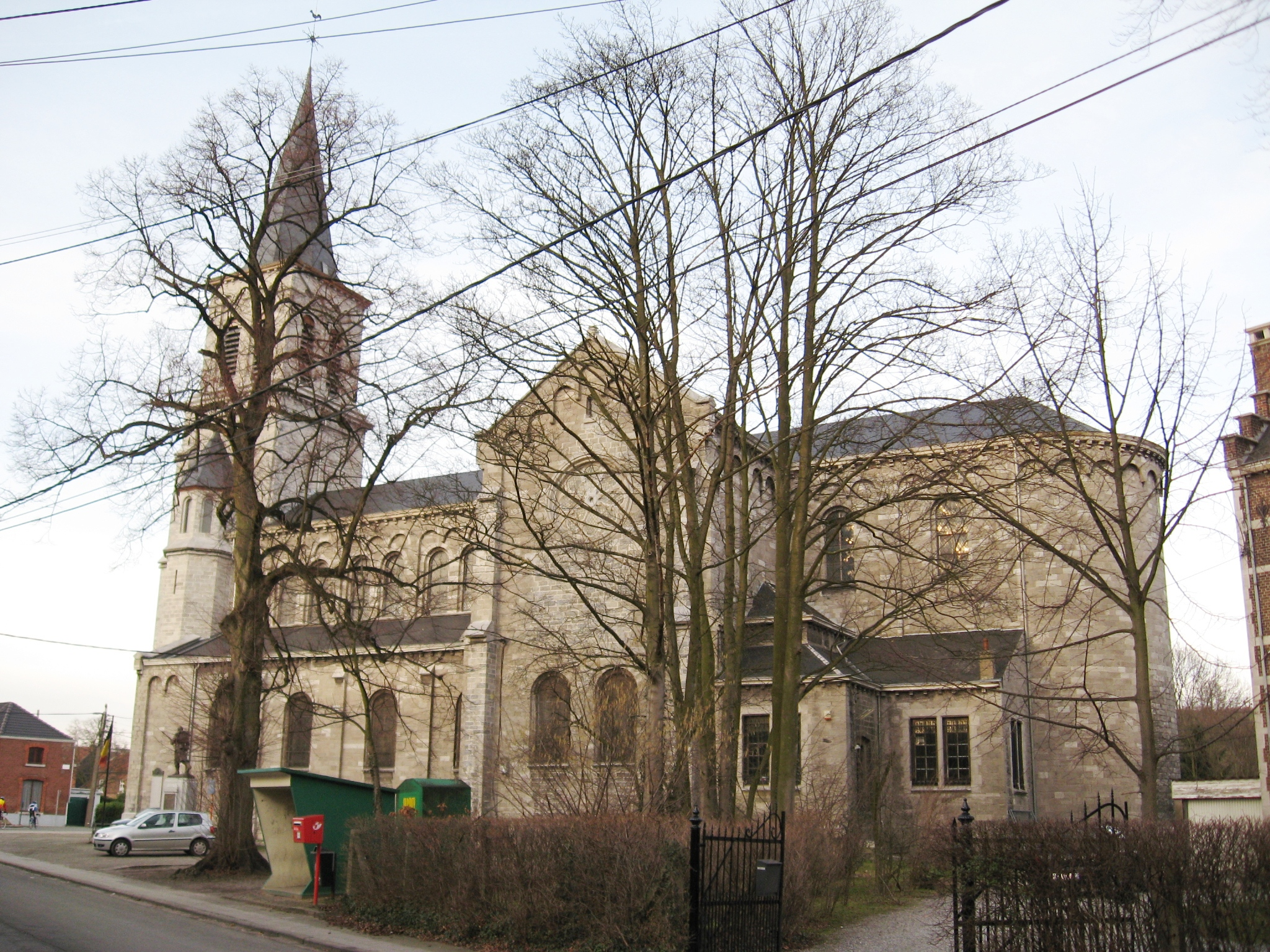 Church of Saint Victor in Glons, Bassenge, Liège, Belgium